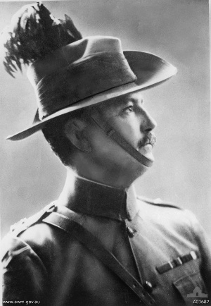 Photograph of Australian Victoria Cross recipient Lieutenant Frederick William Bell, of the 6th West Australian Mounted Infantry. Awarded for bravery during the Second Boer War.